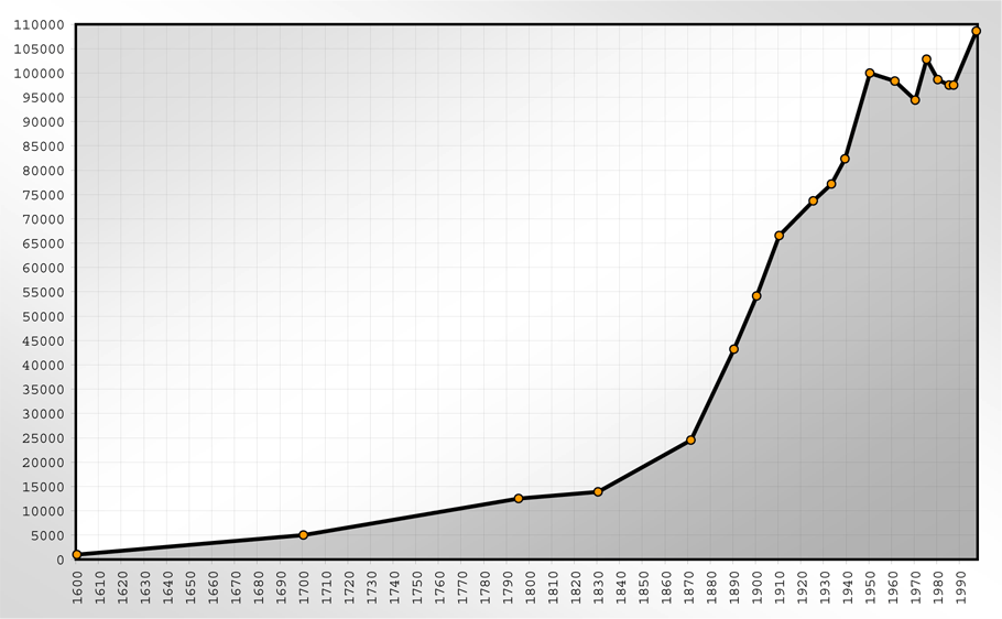 This image shows the population statistics of Fürth (Germany).